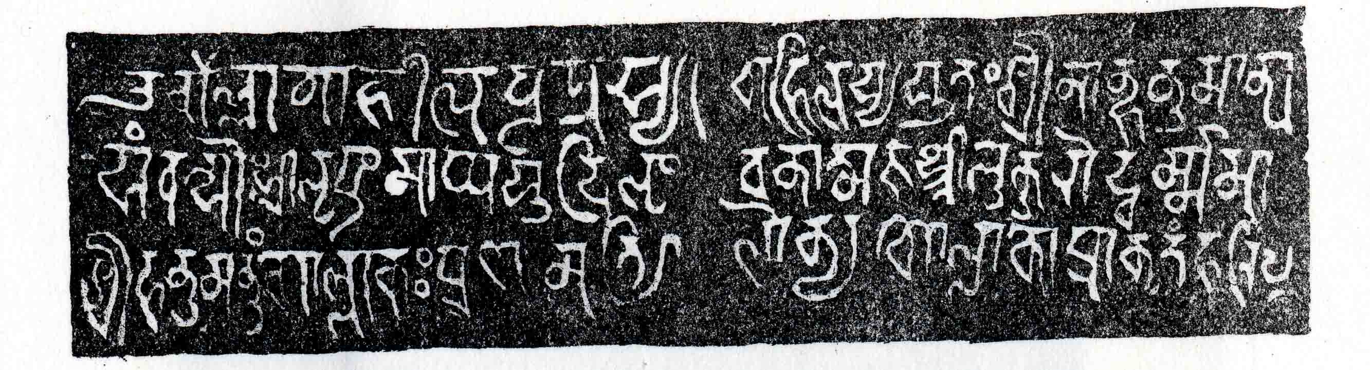 Rubbing of the Hanuman inscription at Khajuraho, Madhya Pradesh, India.